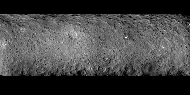 PIA18923: Cratered Surface of Ceres The surface of Ceres is covered with craters of many shapes and sizes, as seen in this new mosaic of the dwarf planet comprised of images taken by NASA's Dawn mission on Feb. 19, 2015 from a distance of nearly 29,000 miles (46,000 kilometers). An unusually large basin nearly 186 miles (300 kilometers) across is seen just south of the equator, with a shallow interior, faint rim and low-relief mounds within. Several bright spots are seen, including two that are very bright and lie within a single crater north of the equator. The bright spot in the center of that crater is too small to be resolved at this distance, so its true brightness is not yet known. Dawn's mission is managed by NASA's Jet Propulsion Laboratory, Pasadena, California, for NASA's Science Mission Directorate in Washington. Dawn is a project of the directorate's Discovery Program, managed by NASA's Marshall Space Flight Center in Huntsville, Alabama. The University of California, Los Angeles, is responsible for overall Dawn mission science. Orbital ATK, Inc., in Dulles, Virginia, designed and built the spacecraft. The German Aerospace Center, the Max Planck Institute for Solar System Research, the Italian Space Agency and the Italian National Astrophysical Institute are international partners on the mission team. For a complete list of acknowledgments